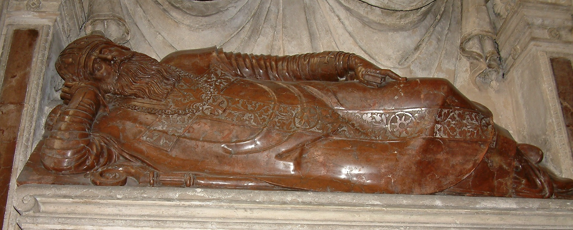 Tomb of bishop Adam Konarski in Poznań Archcathedral Basilica